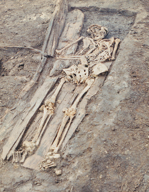 Skeleton from the middle ages in the Netherlands